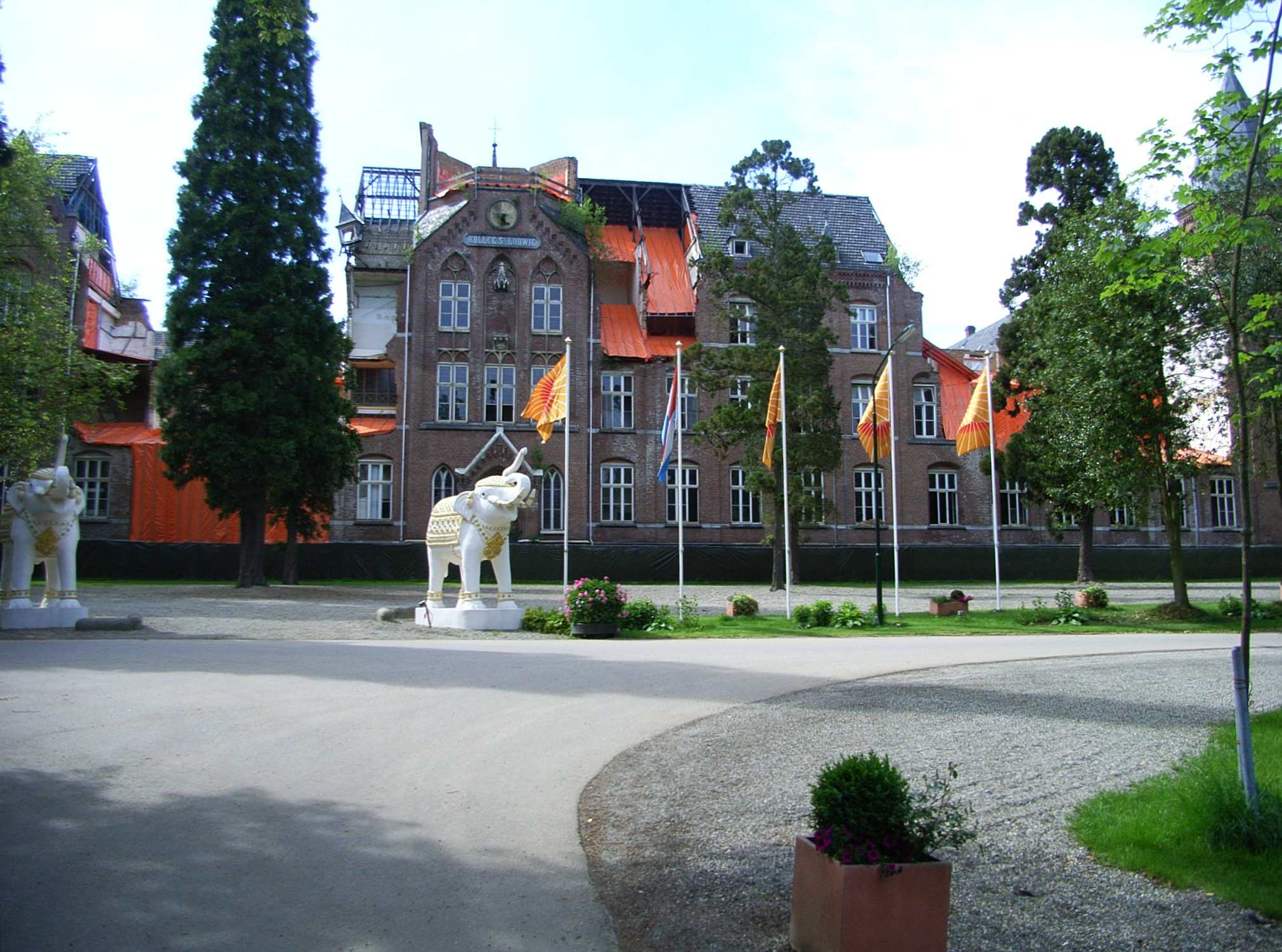 ruined Building of Kolleg St. Ludwig (Maharishi Vedic University), Vlodrop, NL, South-East